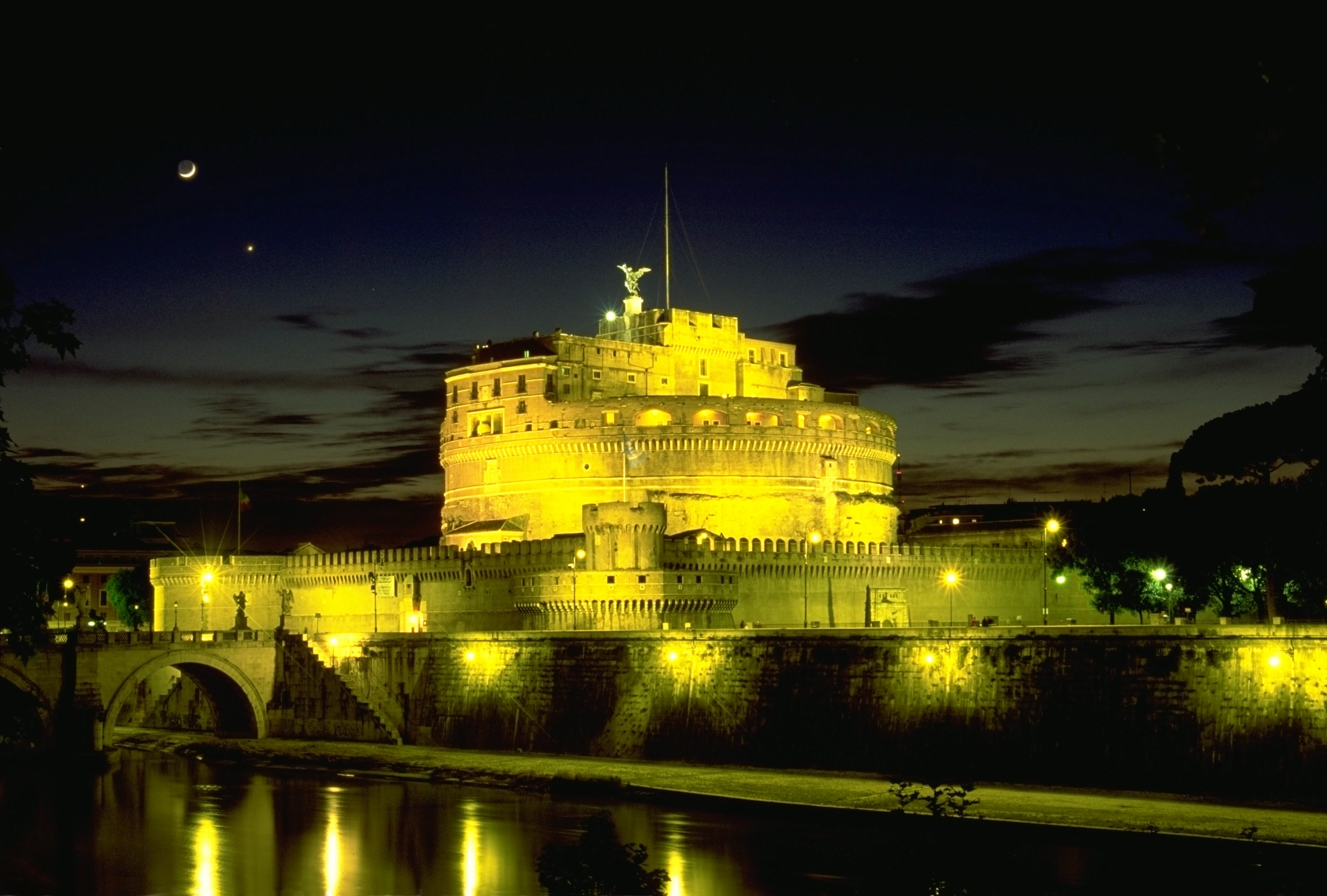 Castel Sant'Angelo at night, Roma. Photo was taken using the following technique: Film: Fuji Velvia Lens: 1.4/50 Filter: Body: Minolta 9000 Support: Manfrotto 190B Image with Information in English Bild mit Informationen auf Deutsch